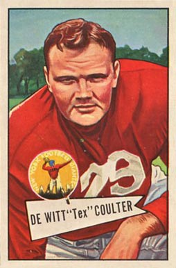 American football player Tex Coulter on a 1952 Bowman Large card.